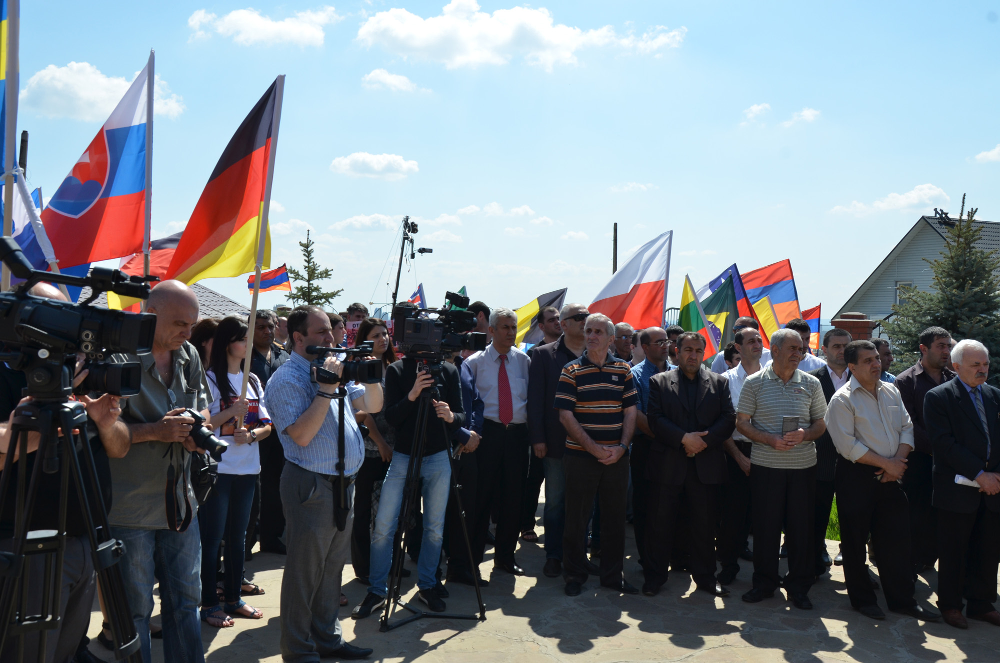 Genocide meeting 24.03.2012 in armenian church Sourb Gevorg